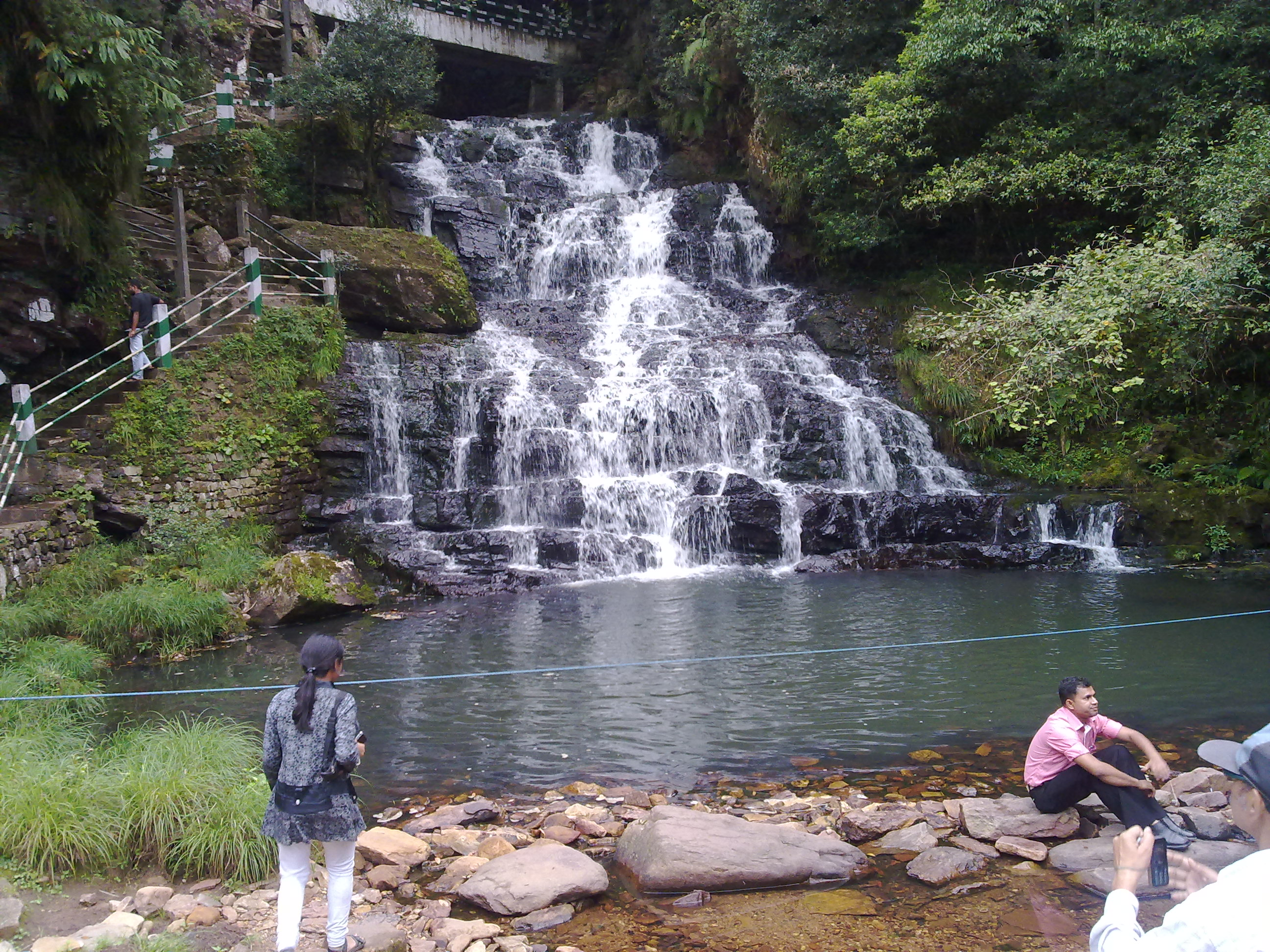 This is an awe inspiring waterfall in Shillong,Meghalaya,India. It is a natural waterfall wih many orchids around. It is also very old.